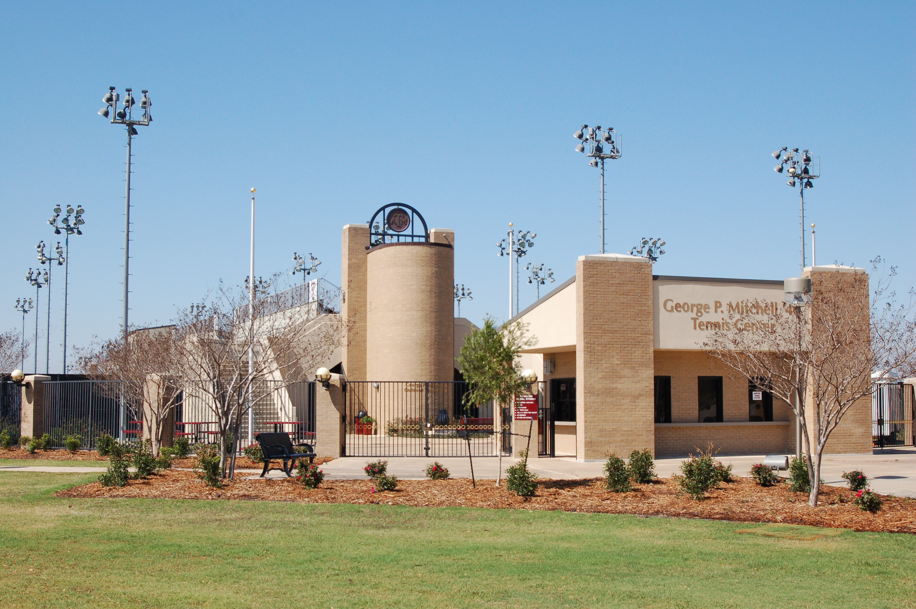 George P. Mitchell '40 Tennis Center